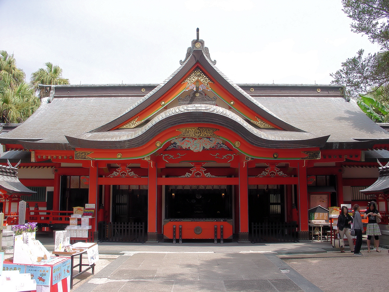 Aoshima Shrine, Taken at Miyazaki City, Miyazaki Prefecture, Japan.